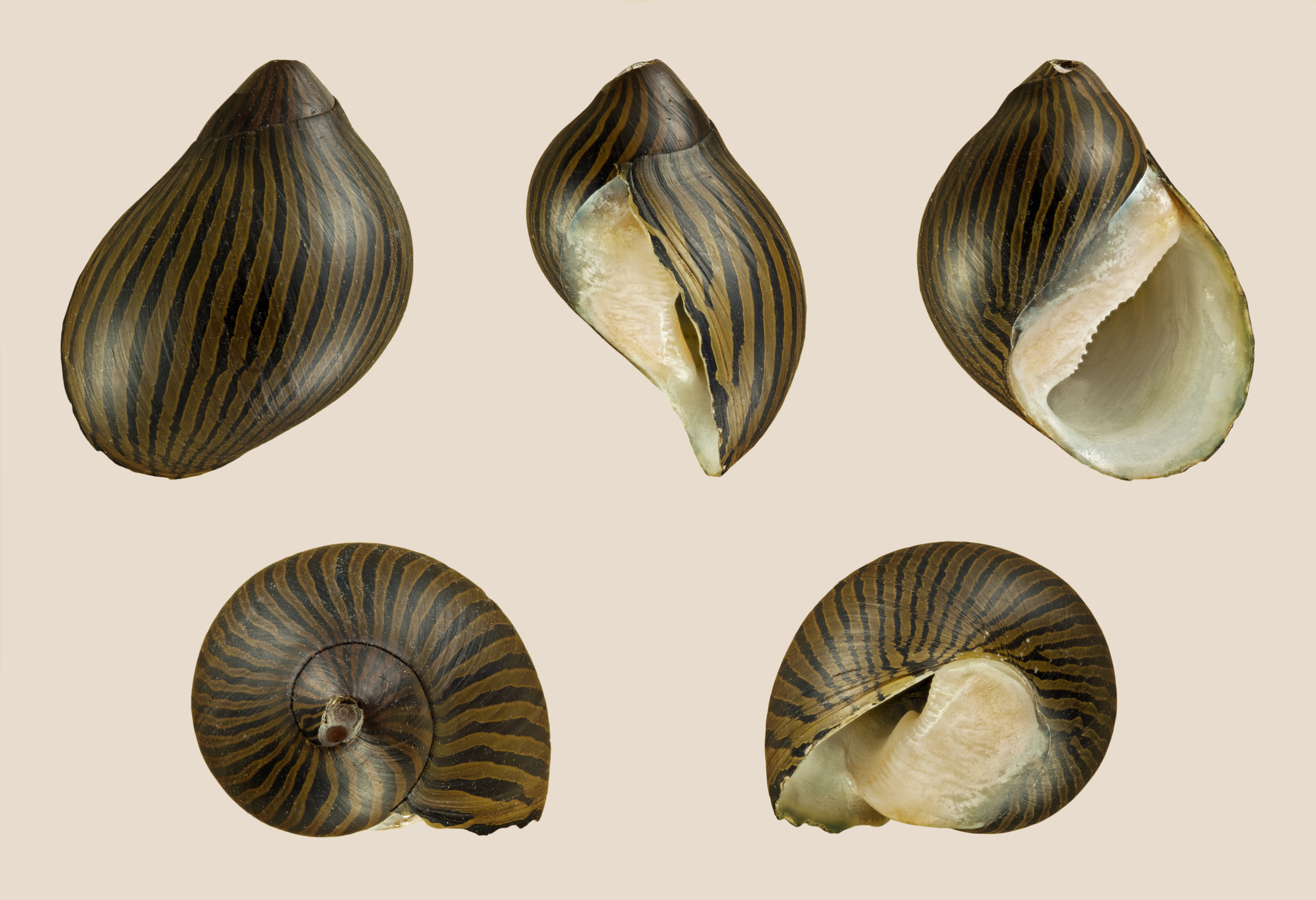 Neritina turrita (Gmelin, 1791), Turreted Nerite, narrow banded form; Height 2.4 cm; Originating from Southeast Asia; Shell of own collection, therefore not geocoded.